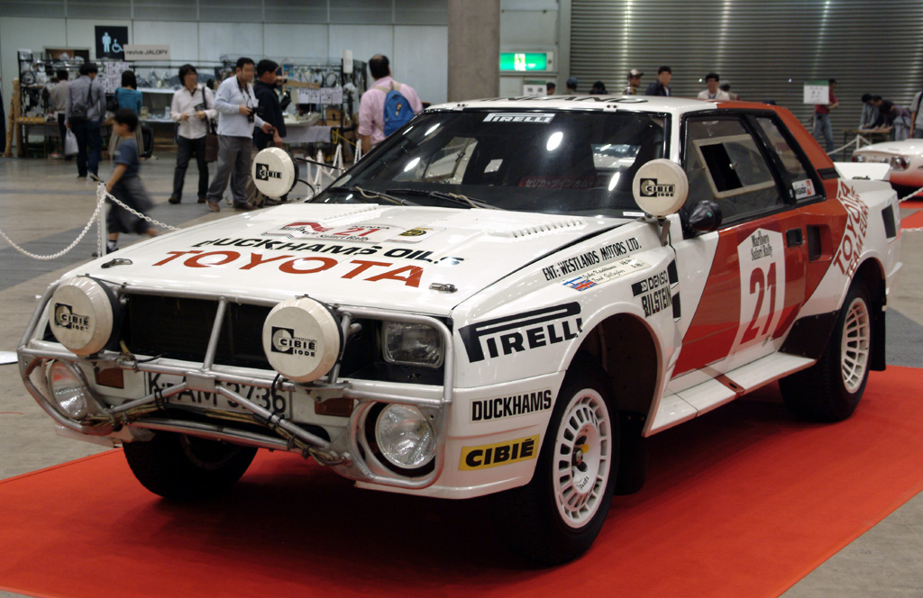 Toyota Celica (1984 Group B),the car which won the championship at Safari Rally.